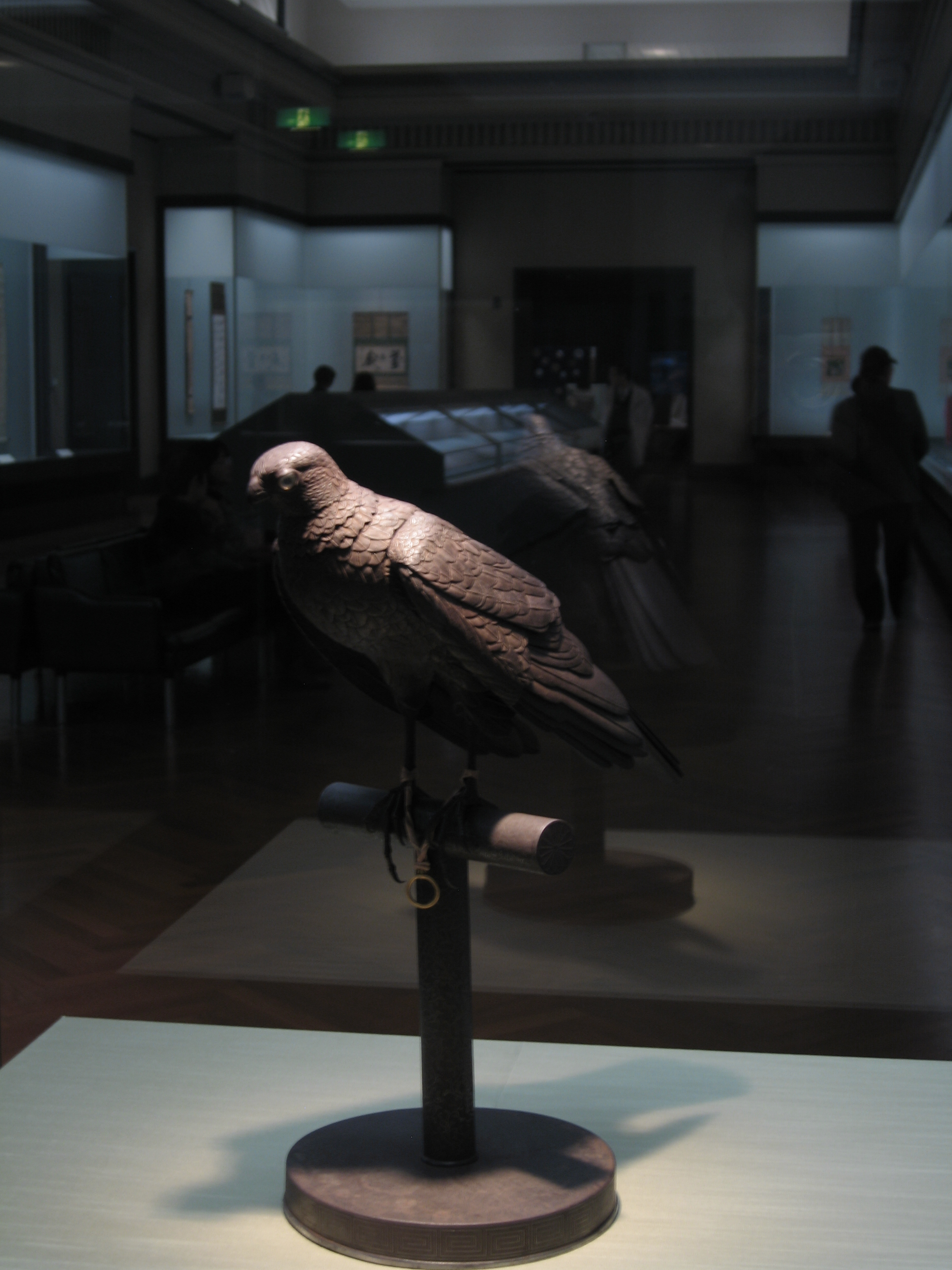 A Jizai Okimono (articulated figure) of hawk made of iron, by Myochin Kiyoharu in late Edo period. A view from frontside. Displayed in Tokyo National Museum.